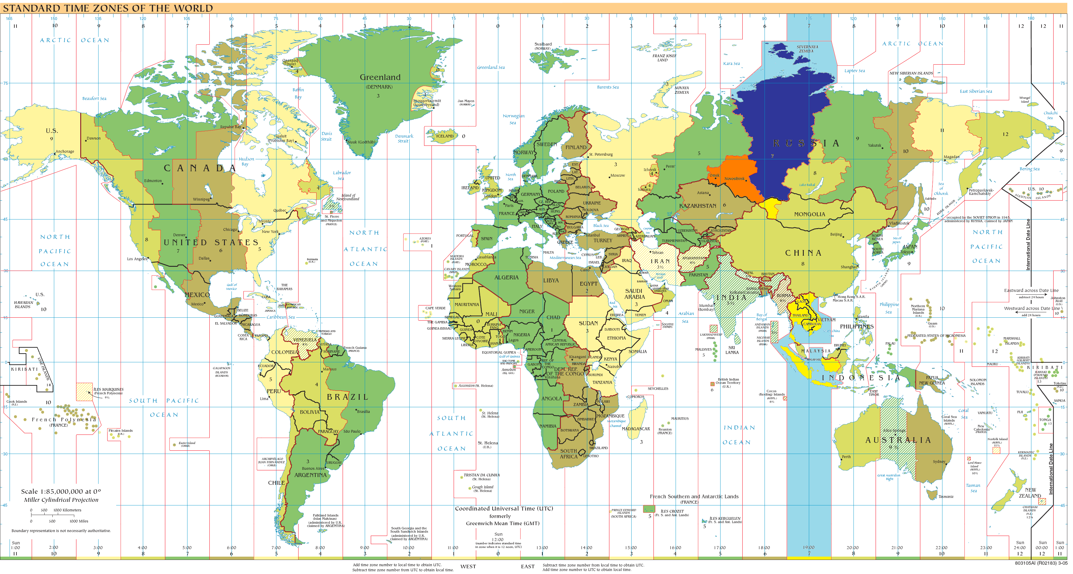 World map of time zones as of June 2008 with UTC+7 Highlighted: Dark blue - December, Light blue - sea areas, Orange -June(NH Summer), Yellow- all year round